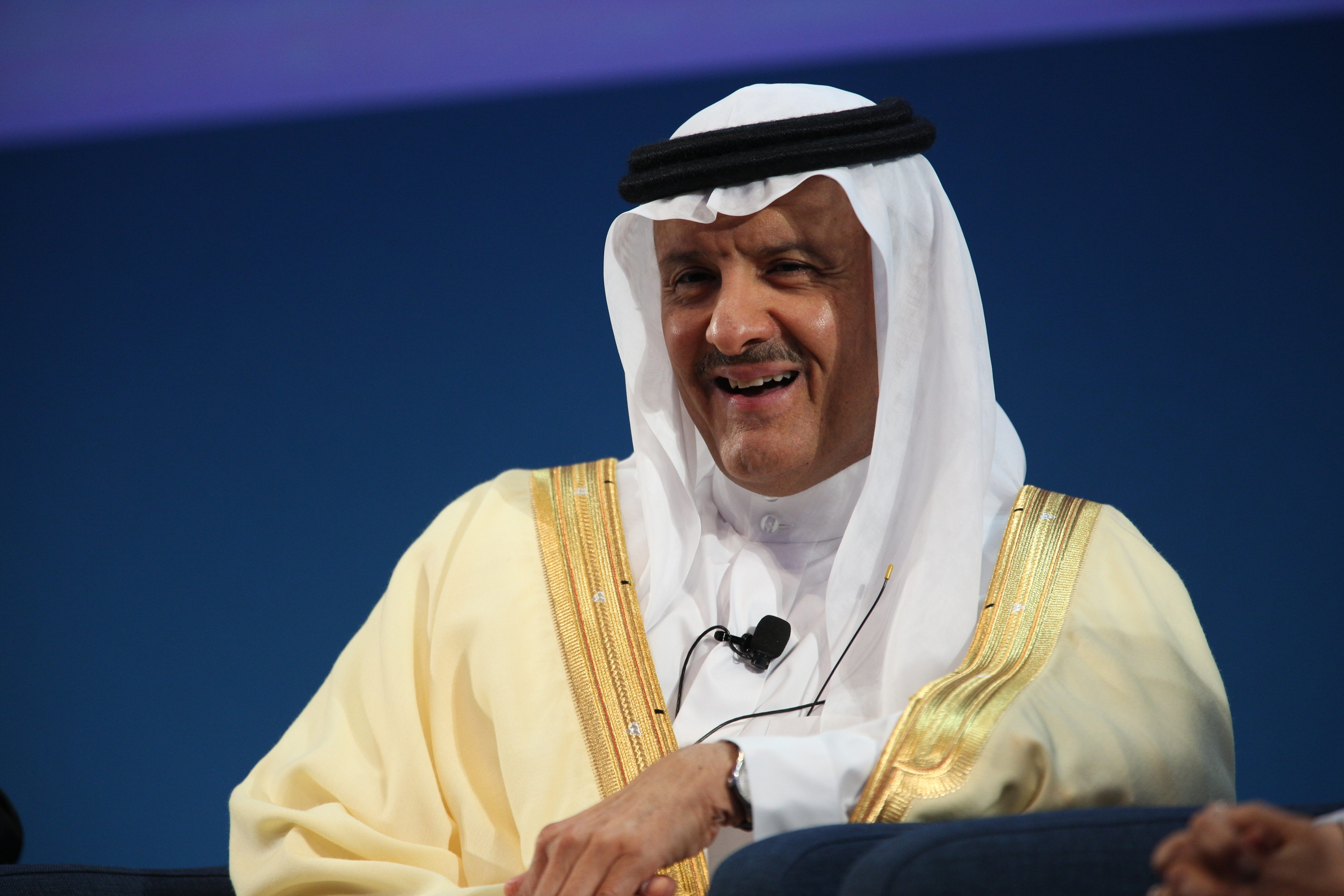 WTTC Global Summit 2016 World Travel & Tourism Council Flickr images